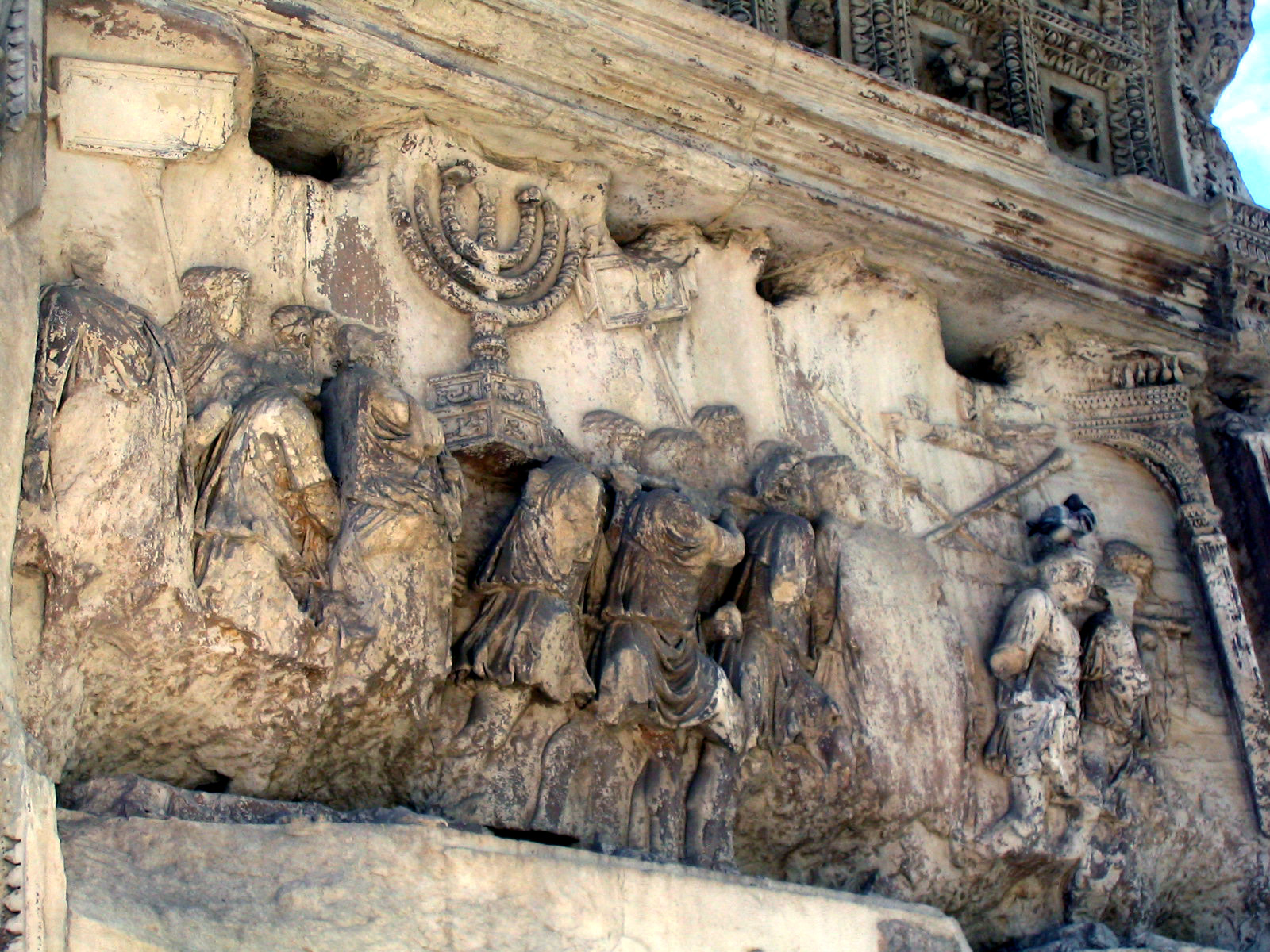 In this part of Titus' triumphal procession (from the Arch of Titus in Rome), the treasures of the Jewish Temple in Jerusalem are being displayed to the Roman people. Hence the Menorah.Arch of Titus relief 2